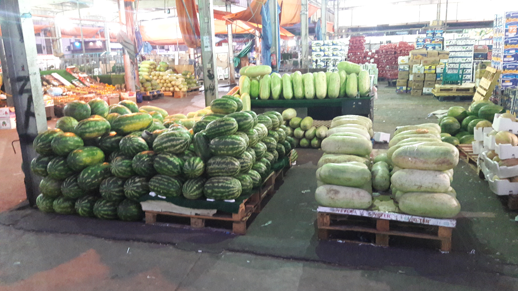 Different types of Watermelon